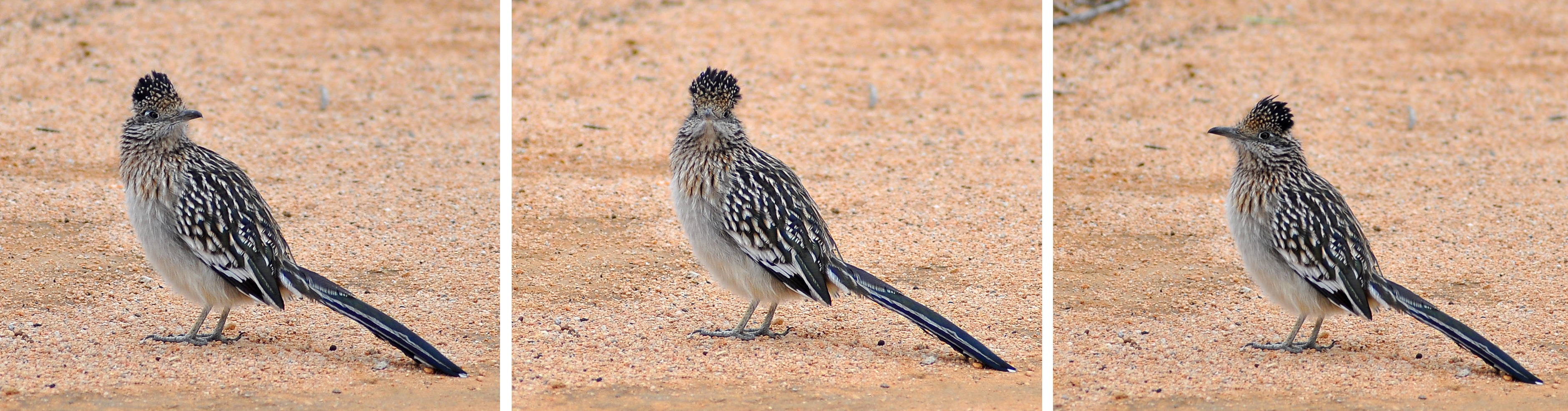 Three views of a Greater Roadrunner, shot with a 200mm Nikon lens on a Nikon D-90